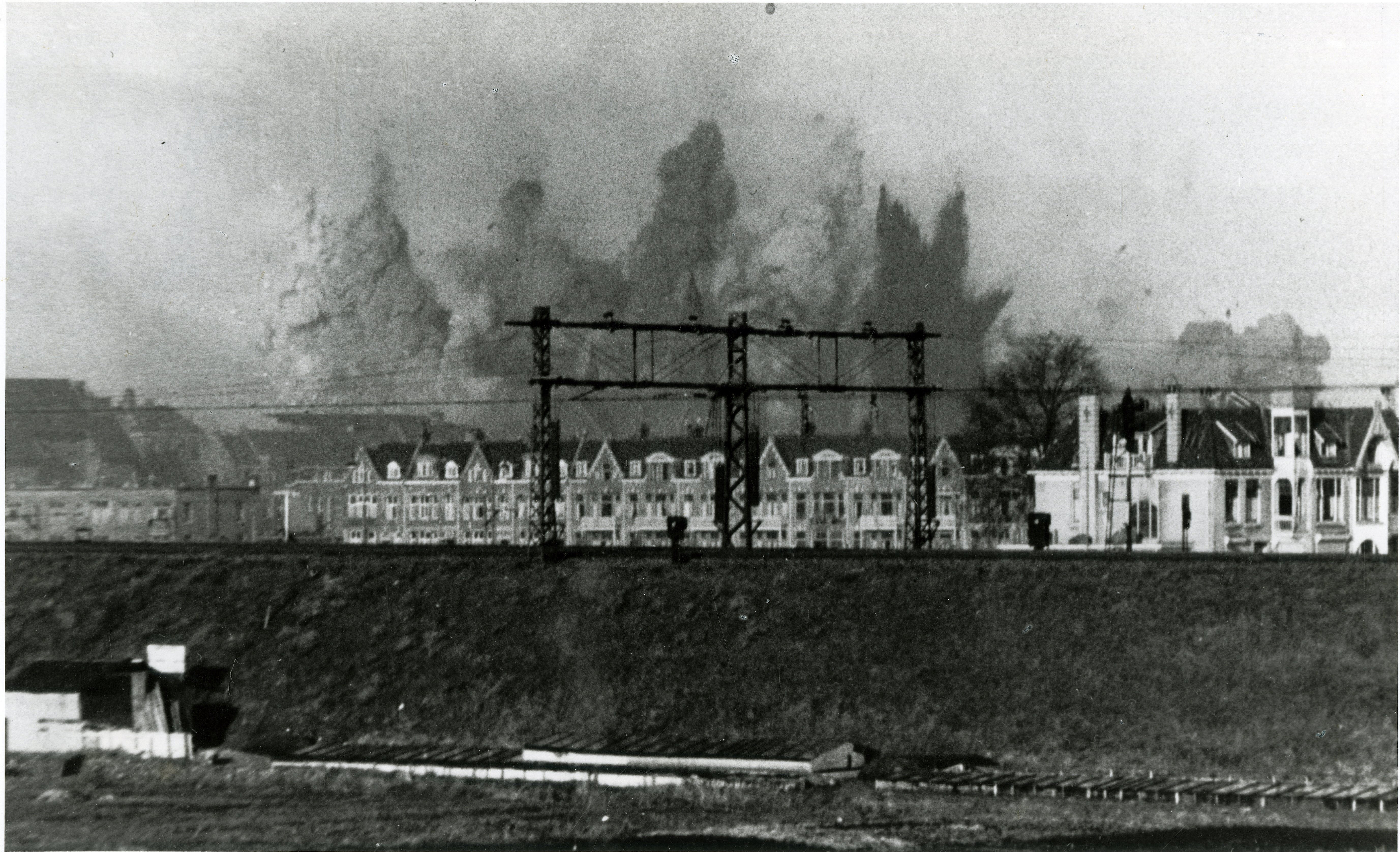 Bombardment of the Bezuidenhout neighbourhood in The Hague. Seen from the suburban village of Voorburg, probably seen from the street Staringkade. Behind the railway embankment the Schenkkade (street) at the corner of Laan van Nieuw Oost-Indië (street).